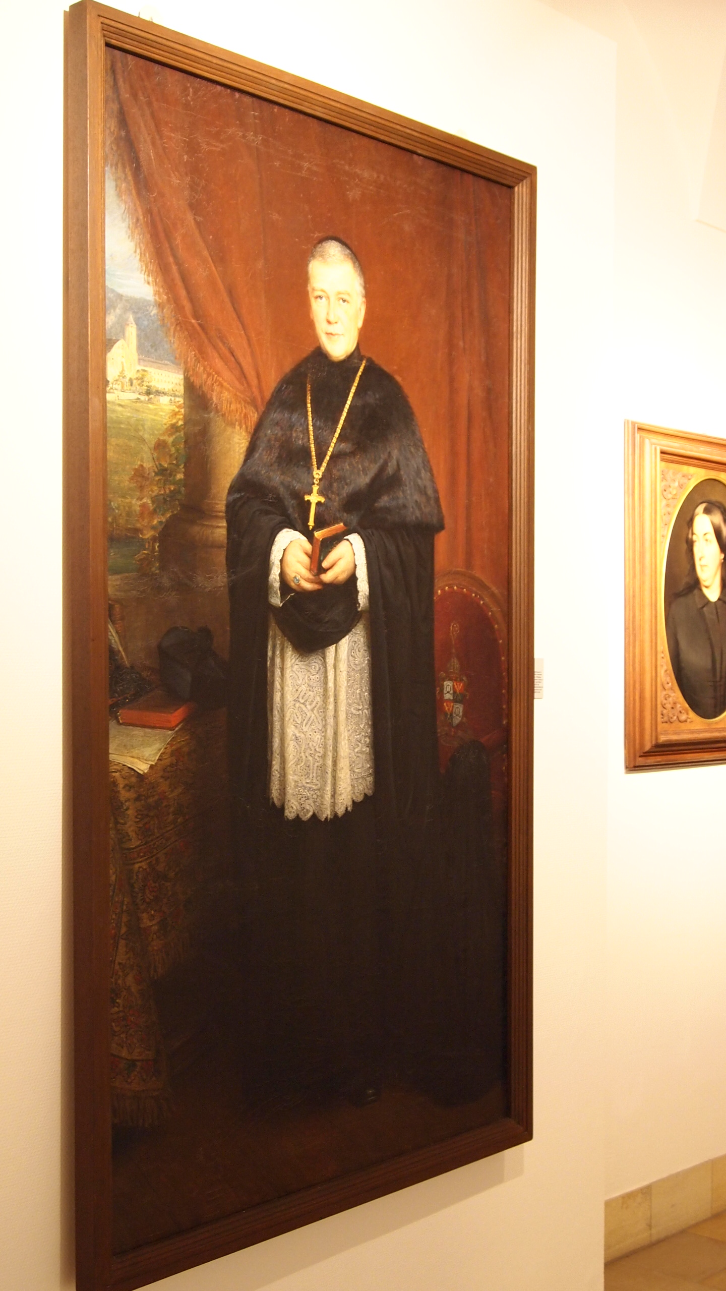 Maurus Wolter OSB, Founder and first Archabbot of Beuron and the Beuronese CongregationLatina: Maurus Wolter OSB, Fundator et primus Archiabbas Archiabbatiae et Congregationis Beuronensis in Cappa magna